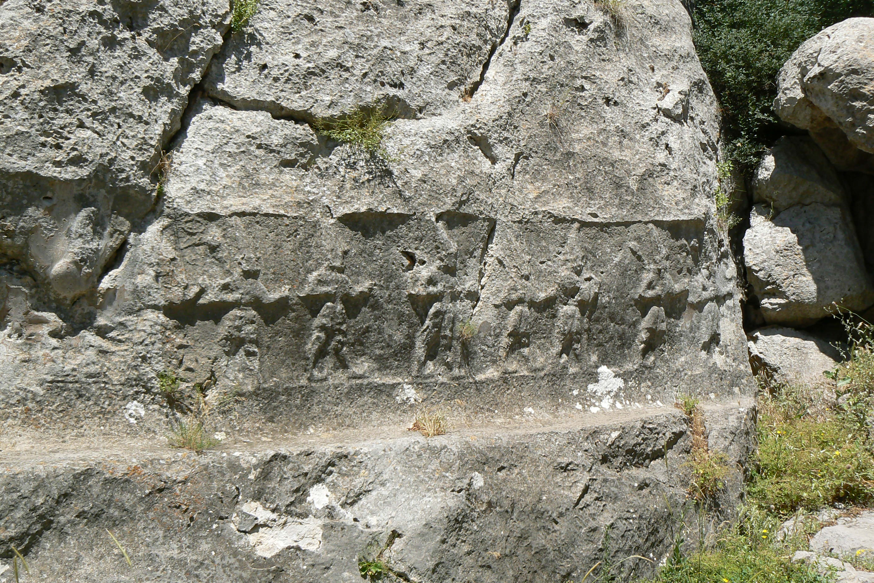 Reliefs of two hittite mountain gods and divinites with no identification, Yazilikaya, hittite rock sanctuary, Anatolia, Turkey